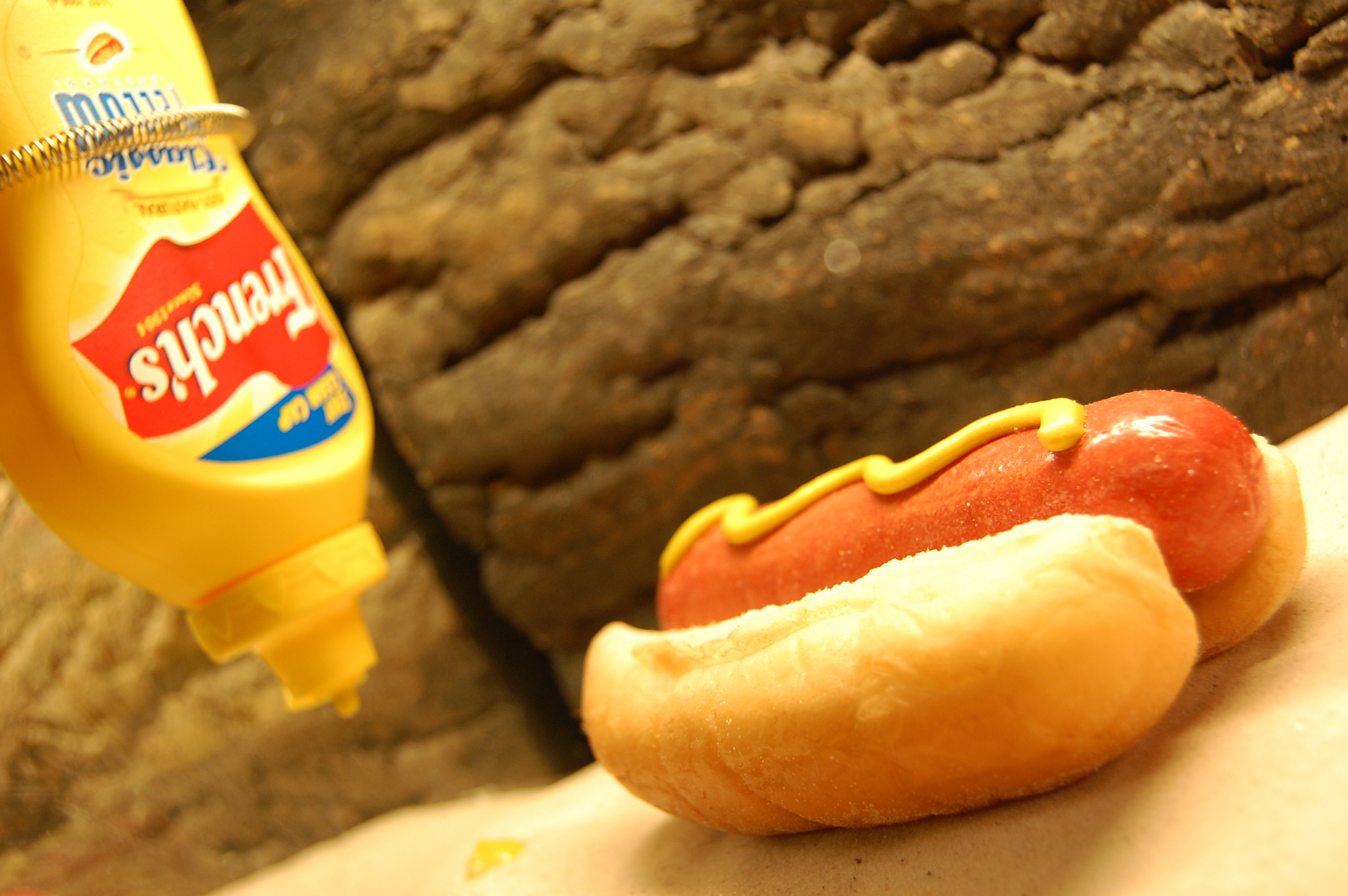 The Village Pet Store And Charcoal Grill